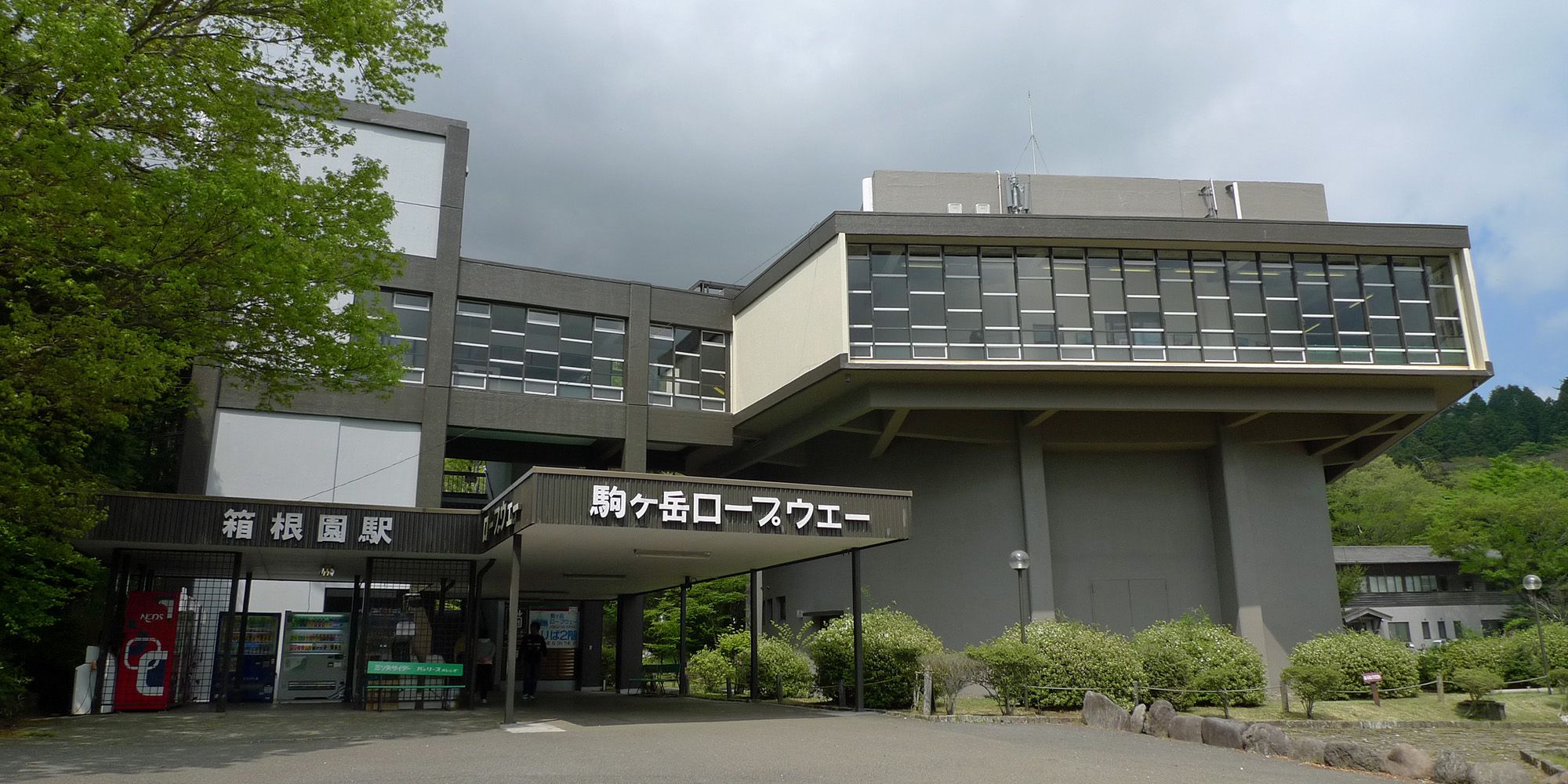 Hakone-en Station.